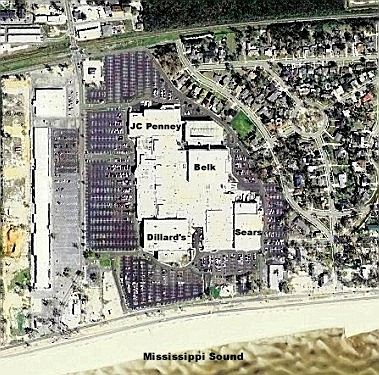 Aerial view of Edgewater Mall located in Biloxi, Mississippi, USA, just north of the Mississippi Sound.